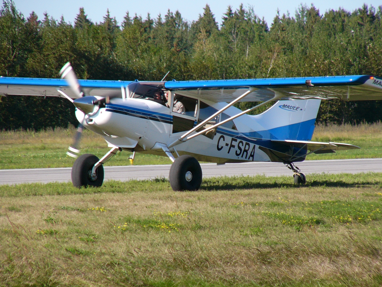 Maule M-7-235C on tundra tires at the Carp Airport Ontario Fly-in